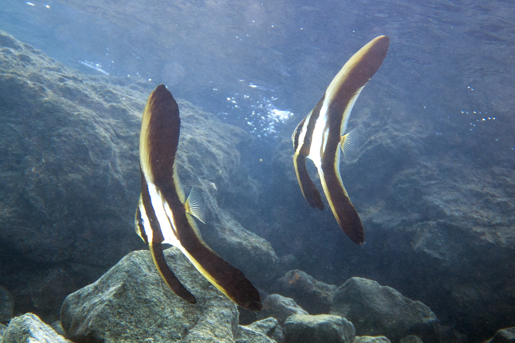 also called longfin spadefish; juveniles